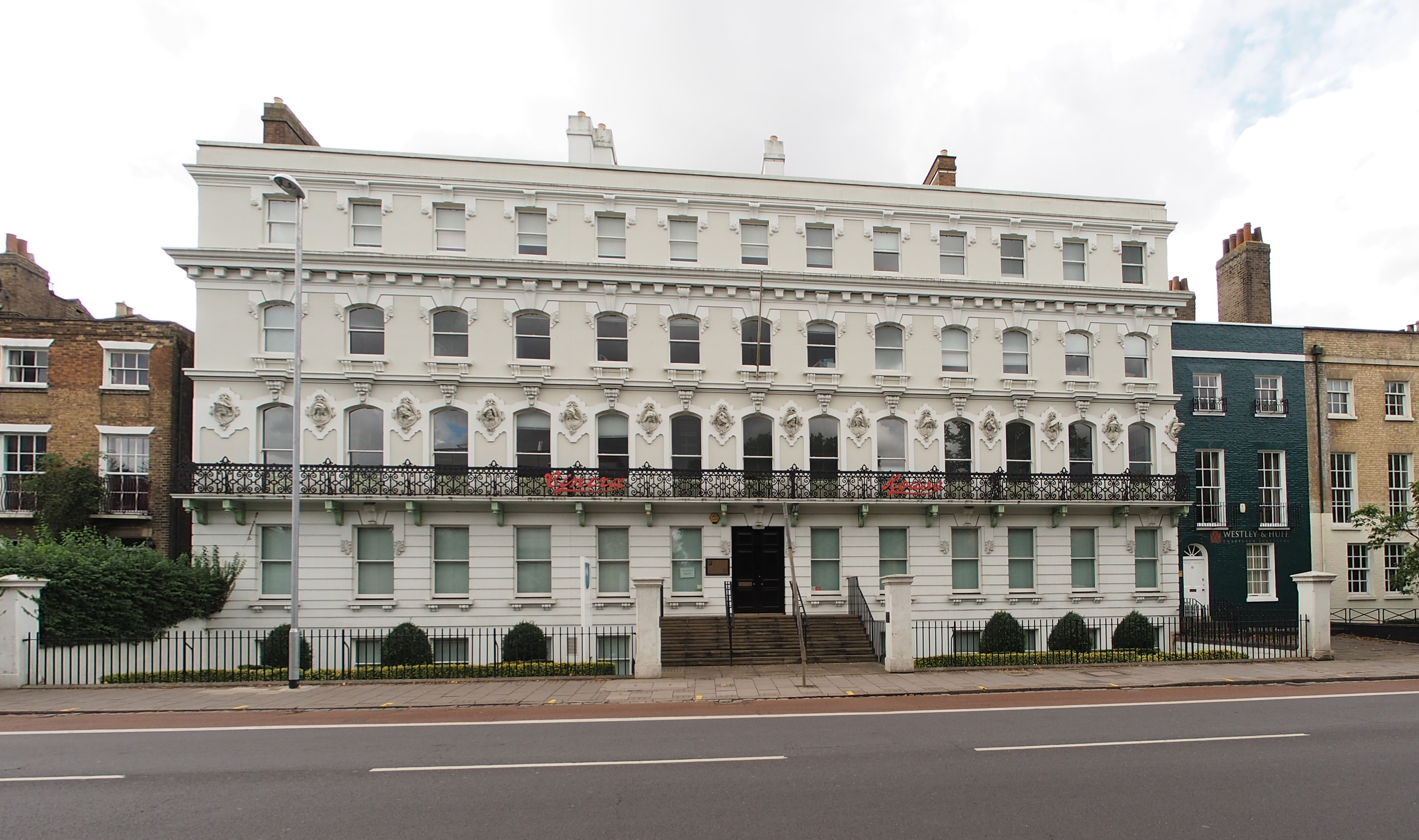 Cintra House, 12-18 (even) Hills Road, Cambridge. Regional headquarters of the Open University. Early 19th century terrace, facade replaced in 1860-5 by John Edlin.